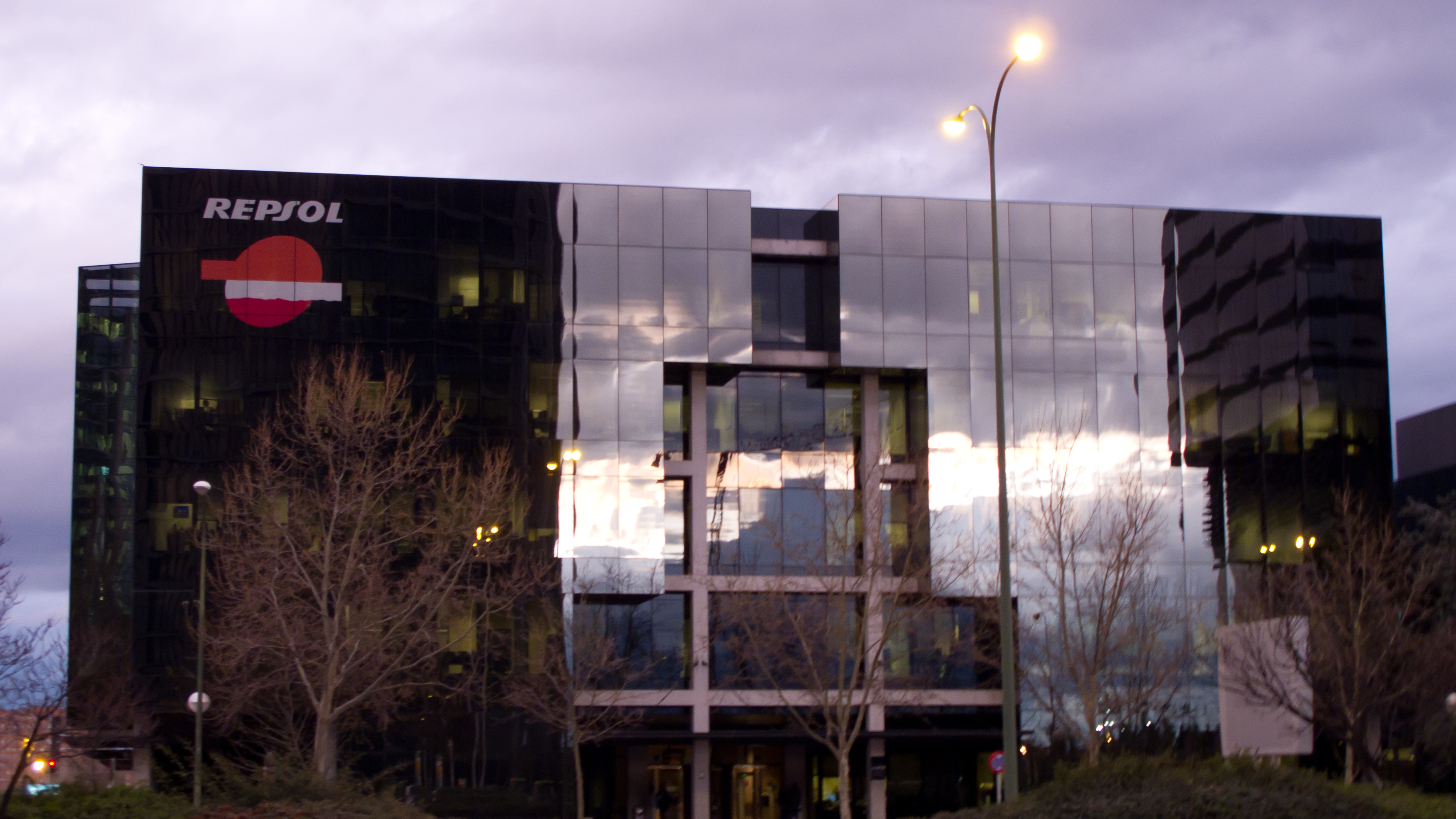 Former headquarters of Repsol in Madrid, Spain.